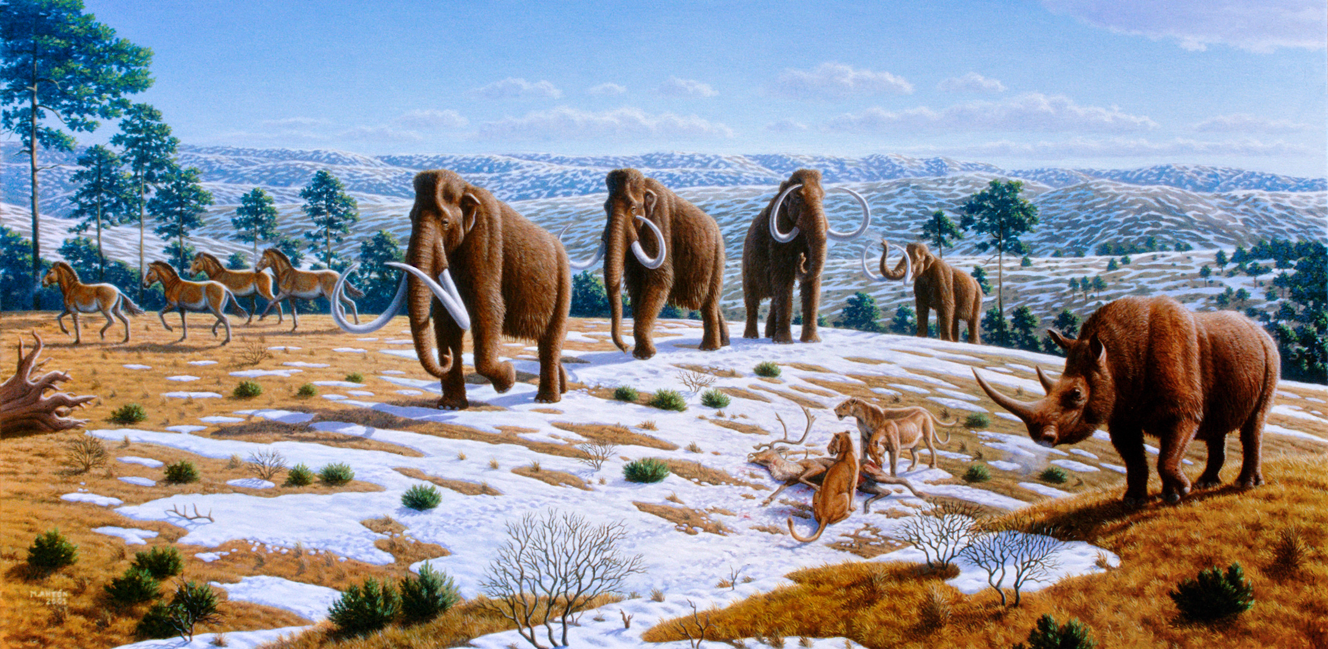 Woolly mammoths were driven to extinction by climate change and human impacts. The image depicts a late Pleistocene landscape in northern Spain with woolly mammoths (Mammuthus primigenius), equids, a woolly rhinoceros (Coelodonta antiquitatis), and European cave lions (Panthera leo spelaea) with a reindeer carcass. (Information according to the caption of the same image in Alan Turner (2004) National Geographic Prehistoric Mammals, Washington, D.C.: National Geographic ISBN 9780792271345, ISBN 9780792269977).